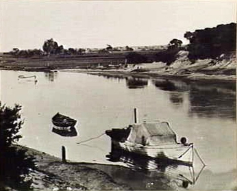 Carrum Creek (Patterson River) photo - 1905